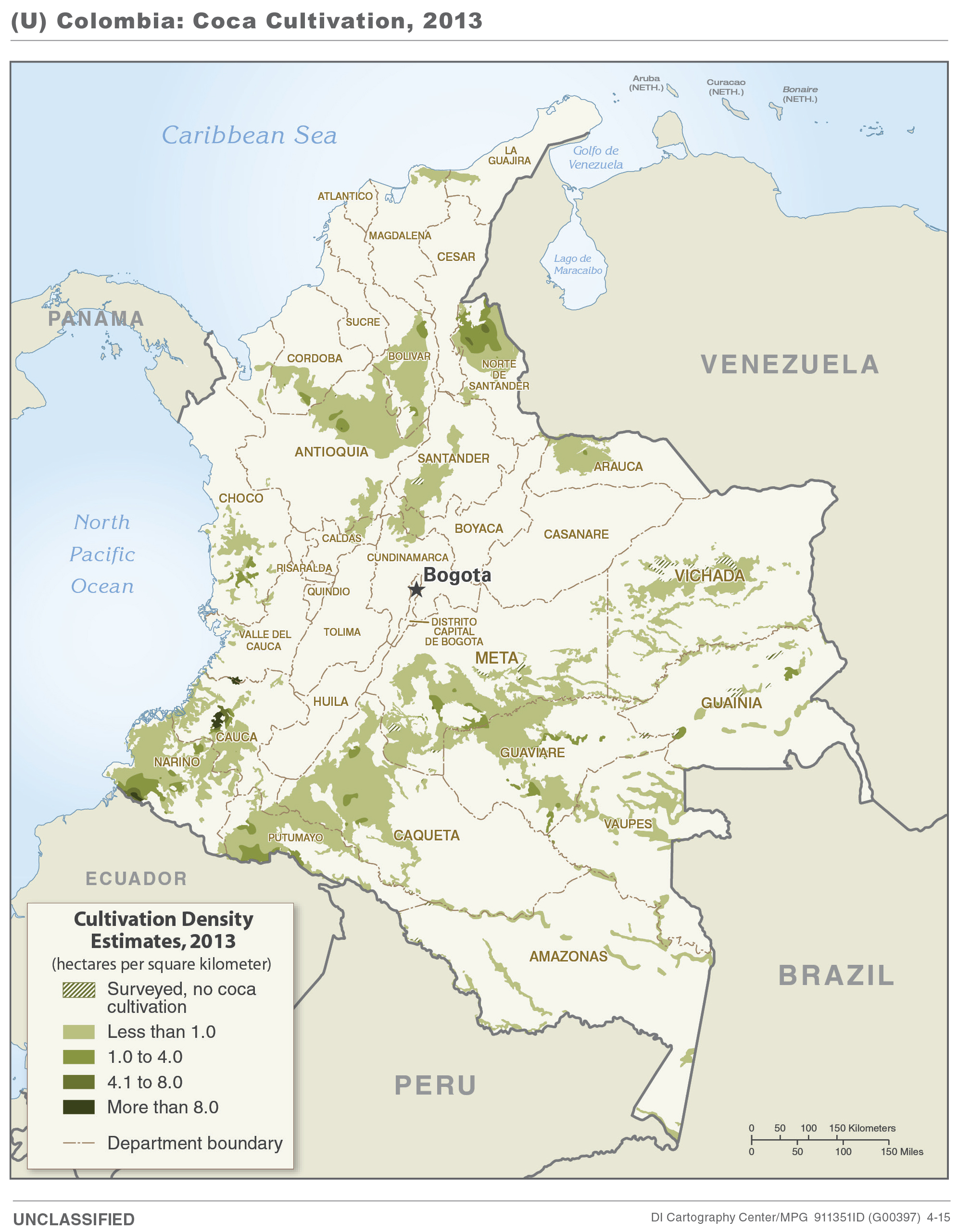 2015 Peru Coca Cultivation